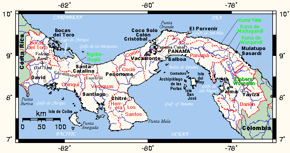 Map of Panama showing main towns, provinces (in red), comarcas (in green), and other pertinent information.